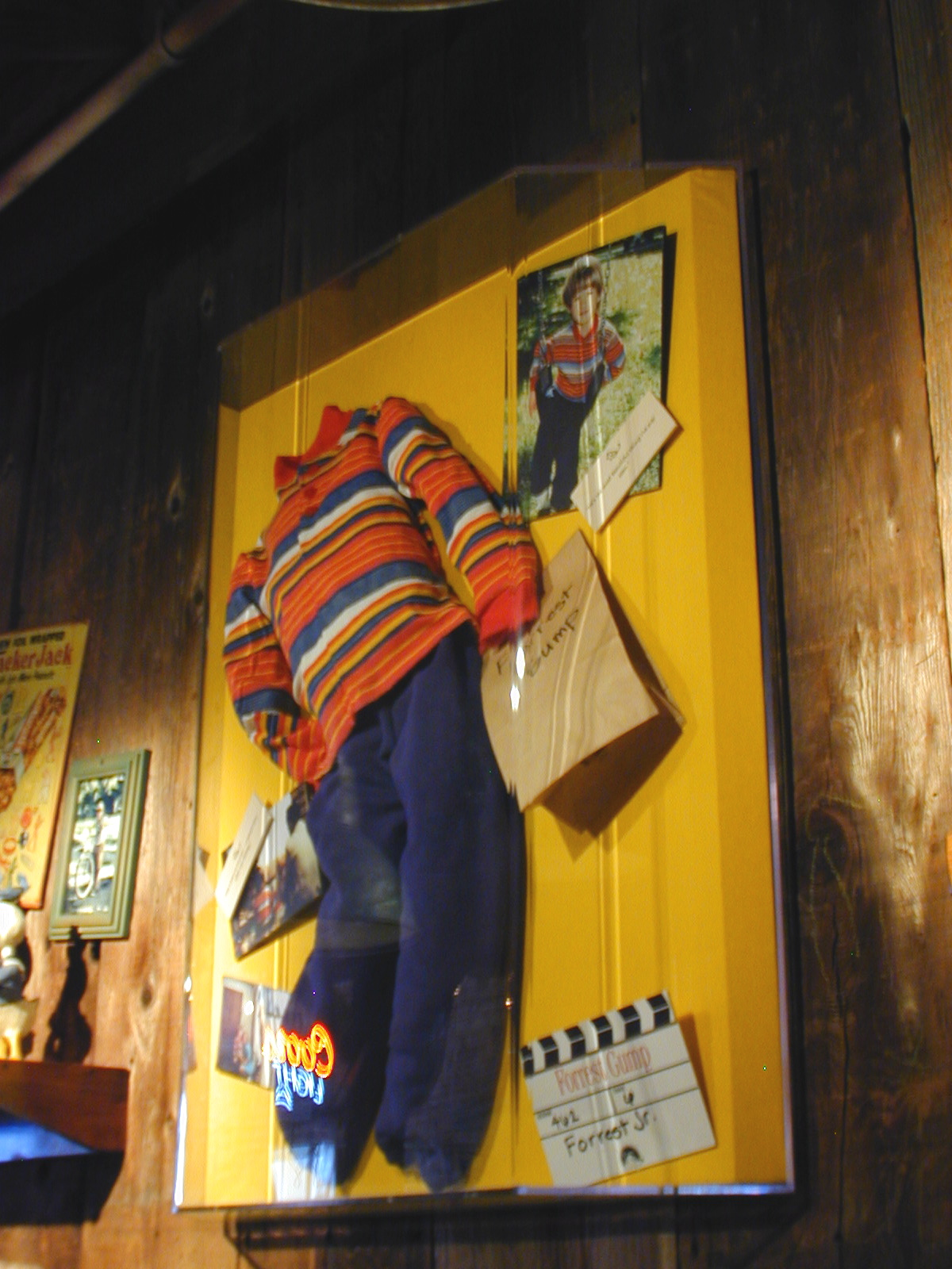 Forrest Gump Jr. (Haley Joel Osment) clothes from the film Forrest Gump at the Bubba Gump Shrimp Company Restaurant of New Orleans, Louisiana, USA.